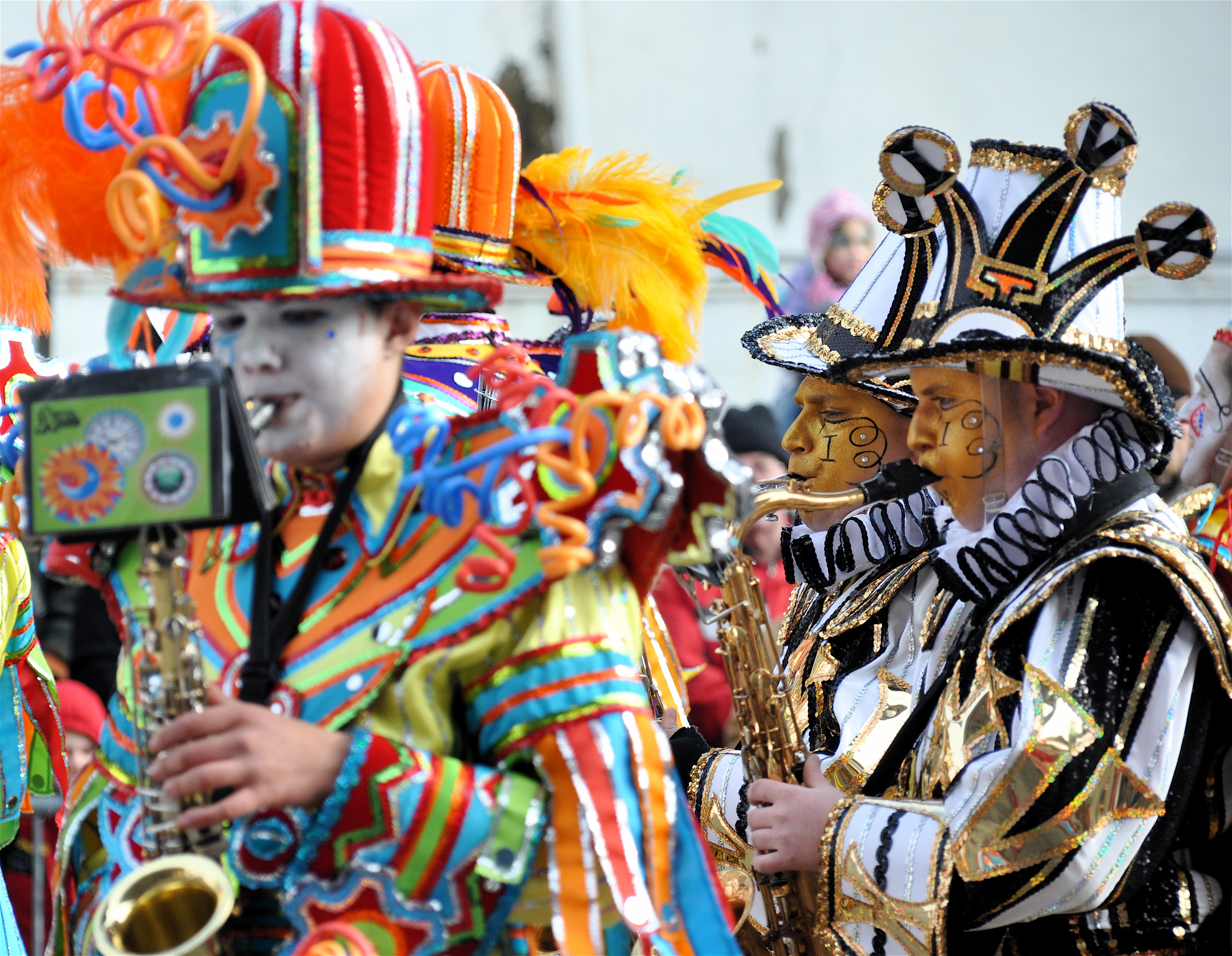 Scenes from the 2010 Mummers Parade in Philadelphia, Jan. 1, 2010.